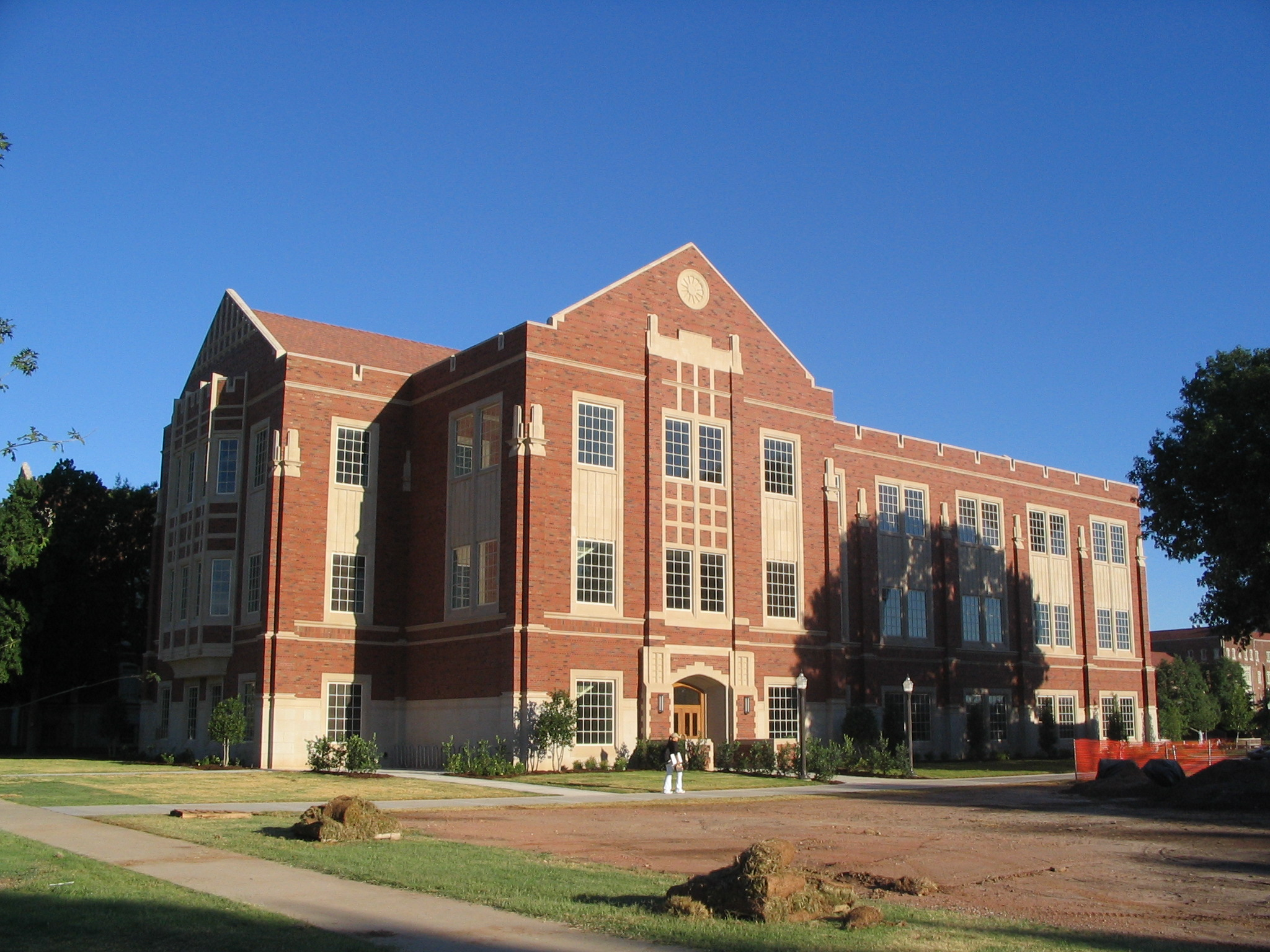 A view from looking NW of the new Price Hall in Norman, OK.